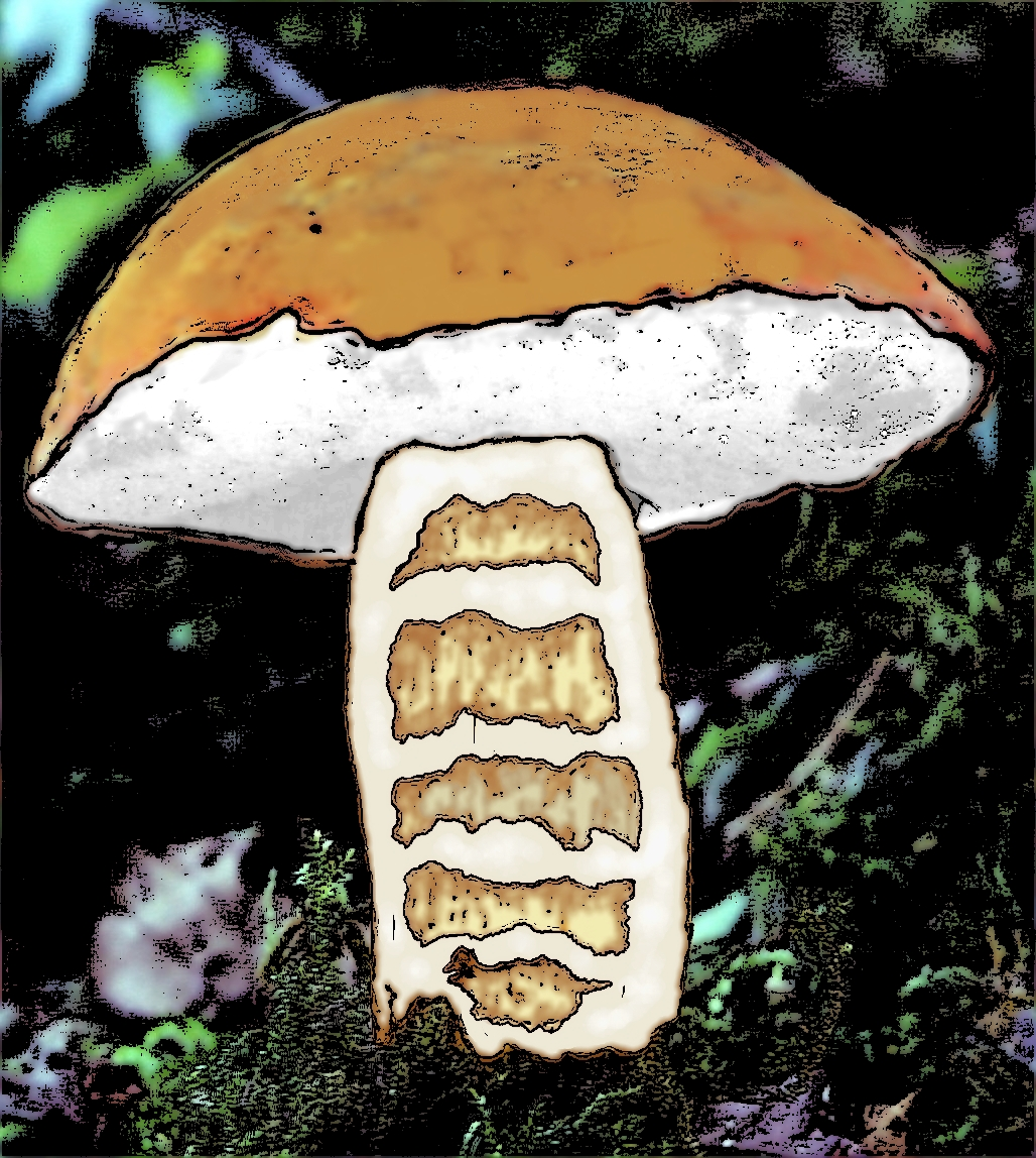 This digital image is the work of photographer Zonda Grattus, aka User:luridiformis. He is the sole owner and copyright holder of this image, and he agrees to publish it under the Own Work, Creative Commons Attribution 3.0 License.